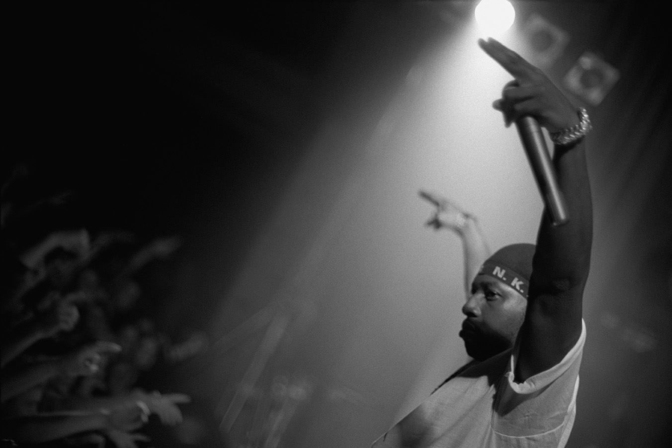 Germany 1997